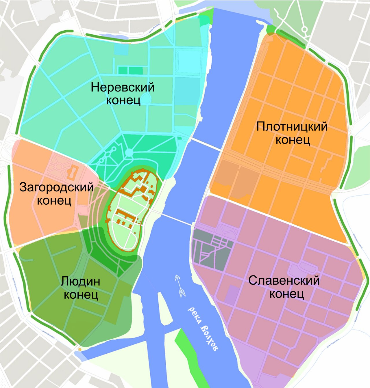 Сenter of Veliky Novgorod, the ancient kontsy (quarters